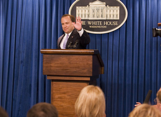 White House Press Secretary Scott McClellan bids farewell to the press pool Friday, May 5, 2006, after delivering his last official briefing at the White House.